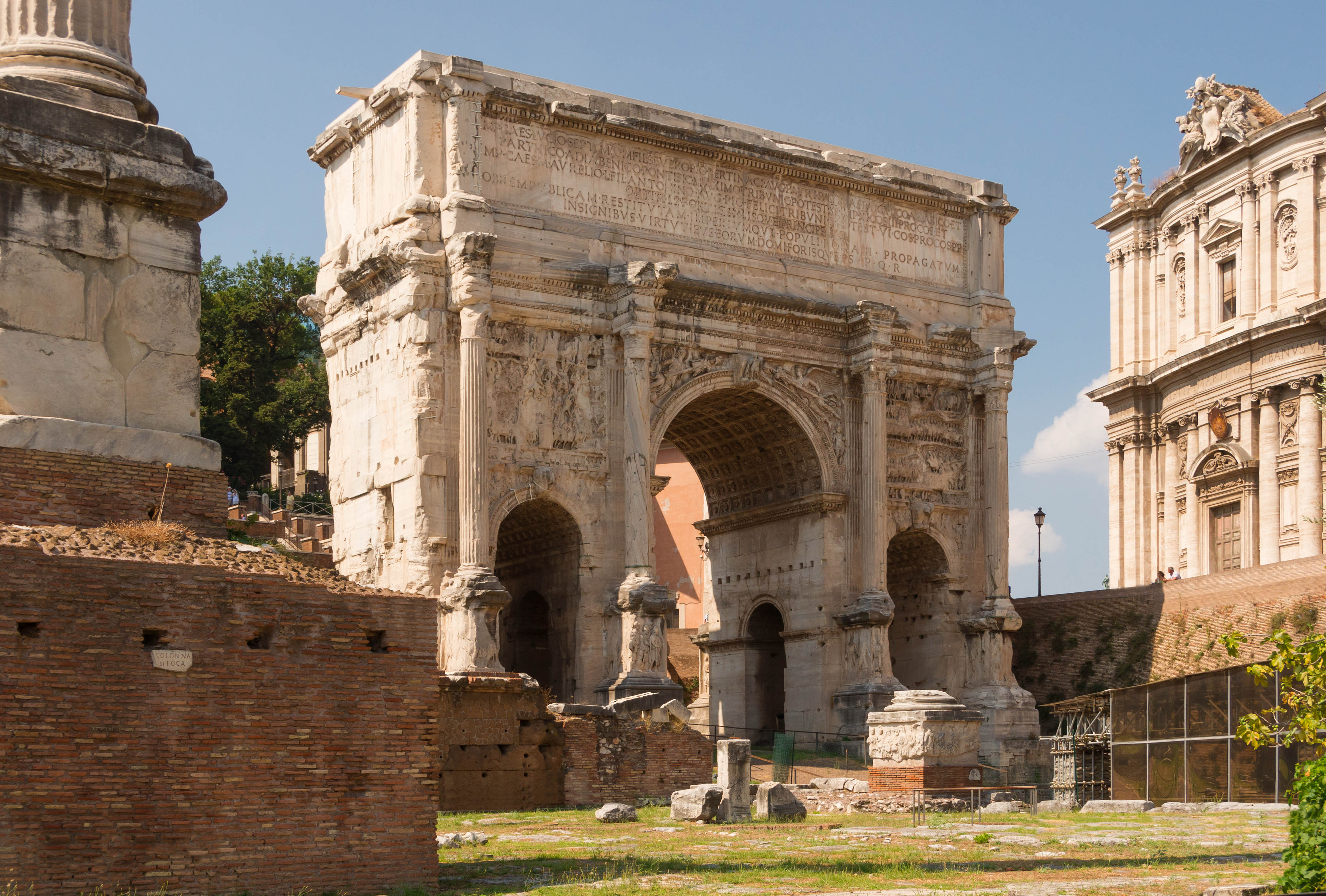 The Arch of Septimius Severus, Forum Romanum, Rome, Italy.